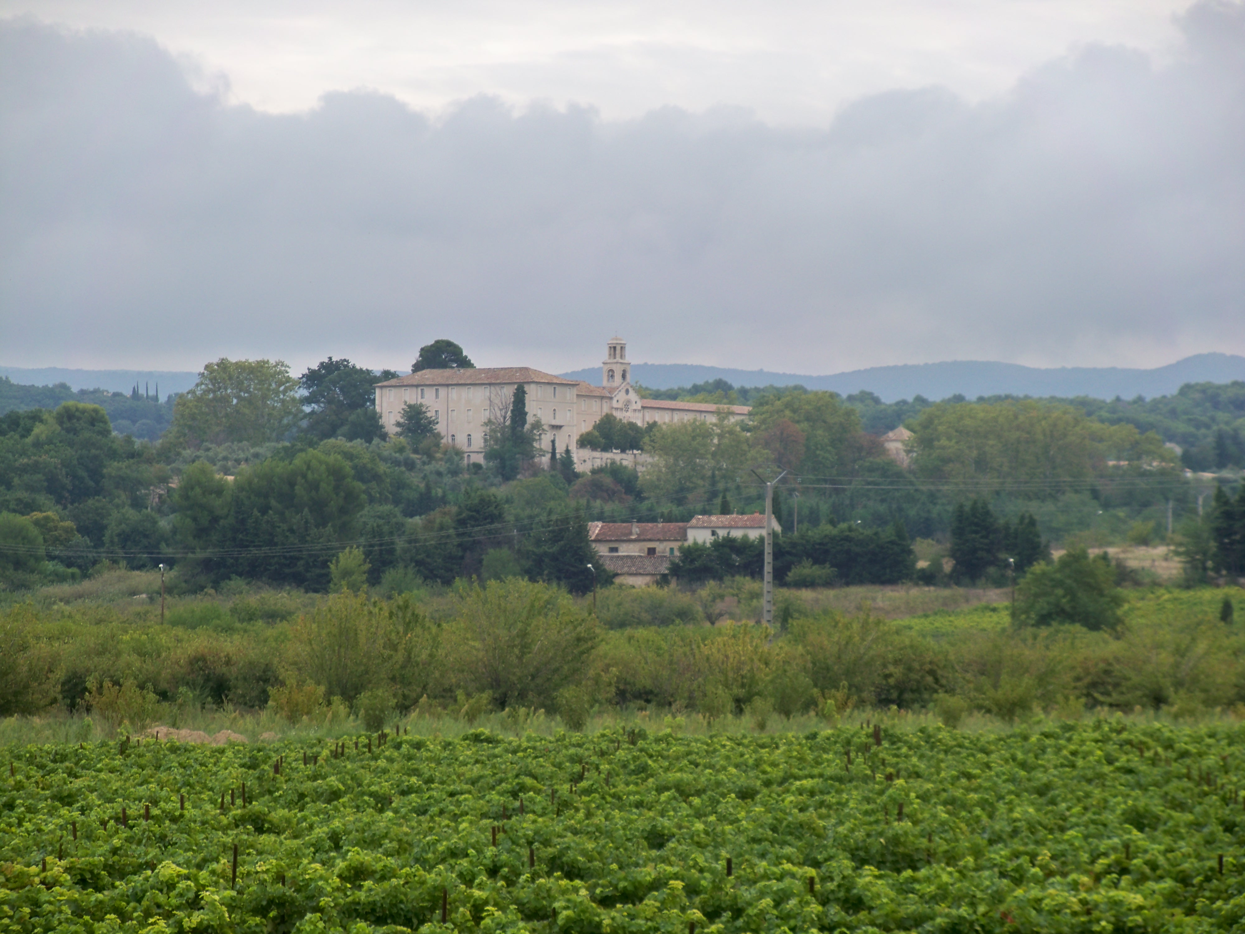 Vineyard near Sainte-Garde-des-Champs, Saint-Didier, Vaucluse, France